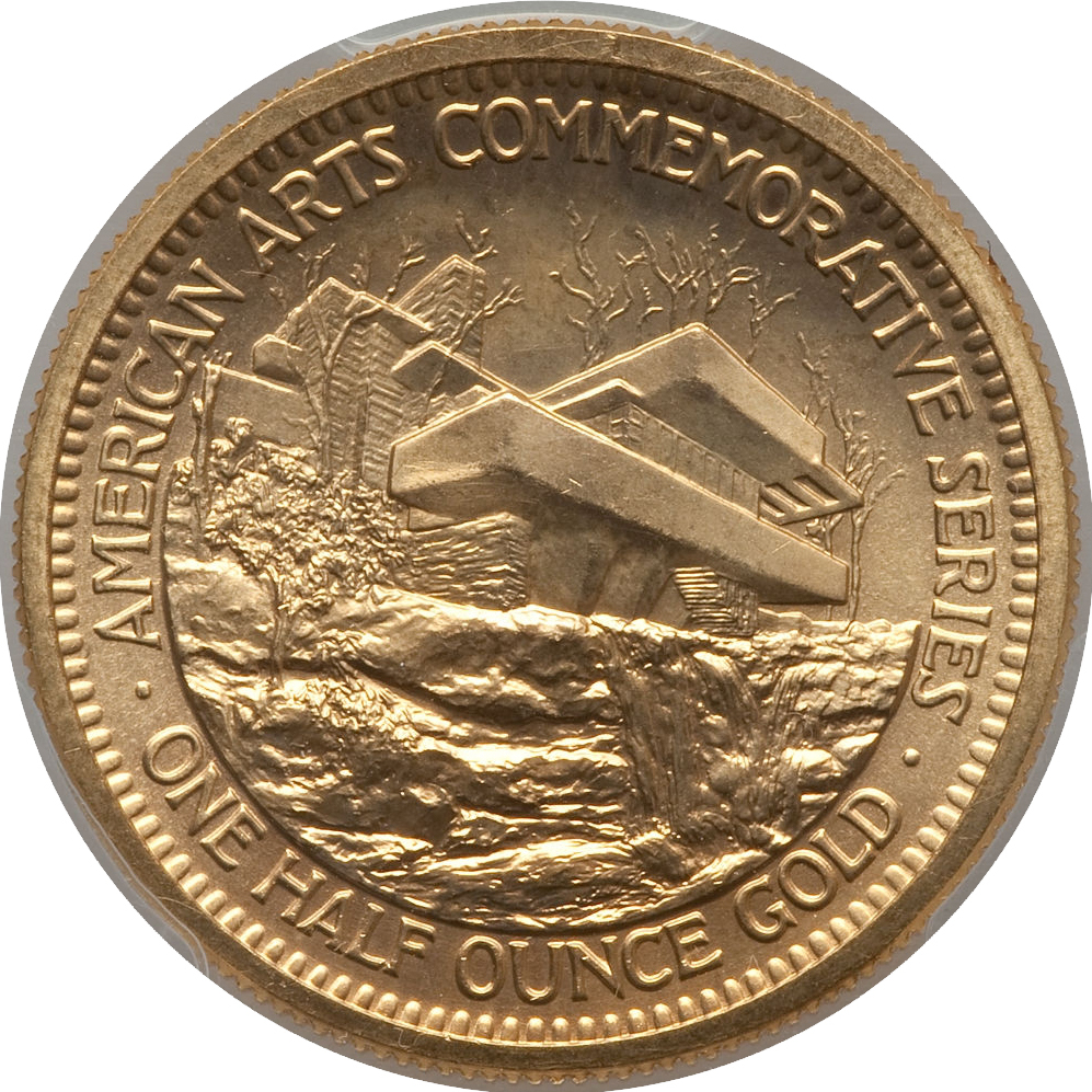 1982 Frank Lloyd Wright Half-Ounce Gold Medal (rev) (1207-9548)